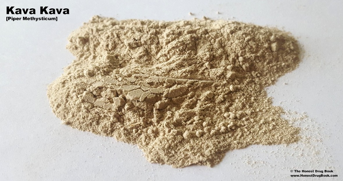 The root of kava kava (Piper Methysticum) is used to produce an entheogenic drink with sedative, anesthetic, and euphoriant properties.